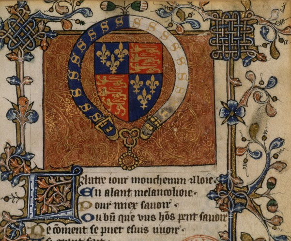 Coat of arms of John, Duke of Bedford, in a manuscript containing the Livre Charny, a work by Geoffroi of Charny about chivalry. Manuscript BNF Français 25447 f3 detail